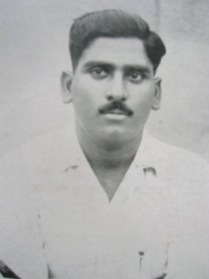 Photo of a famous telugu politician and Indian freedom fighter Alluri satyanarayana raju